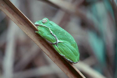 Hyla gratiosa (barking treefrog)